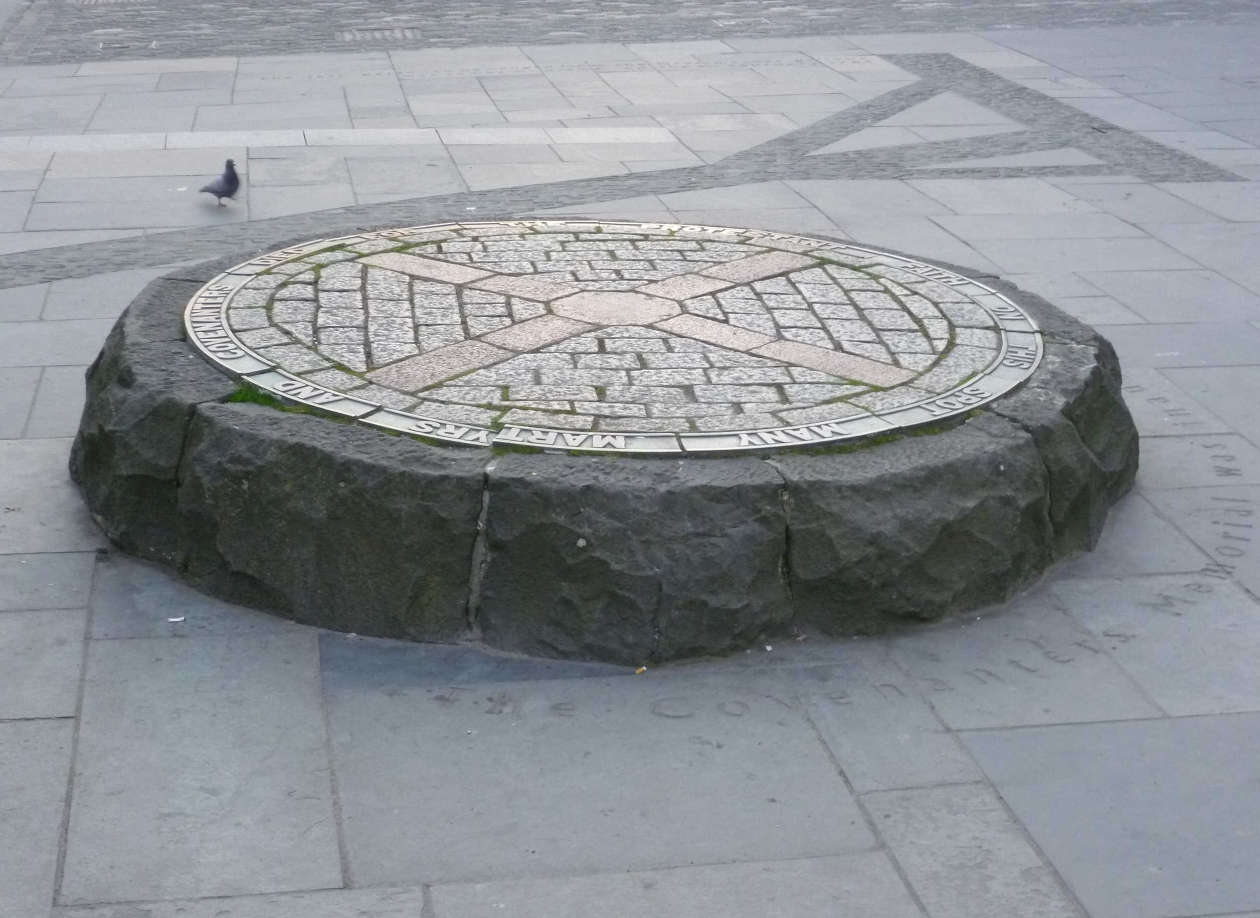 Shadow of the gibbet delineated in paving on the site of public executions, next to the Covenanters Memorial from 1937.